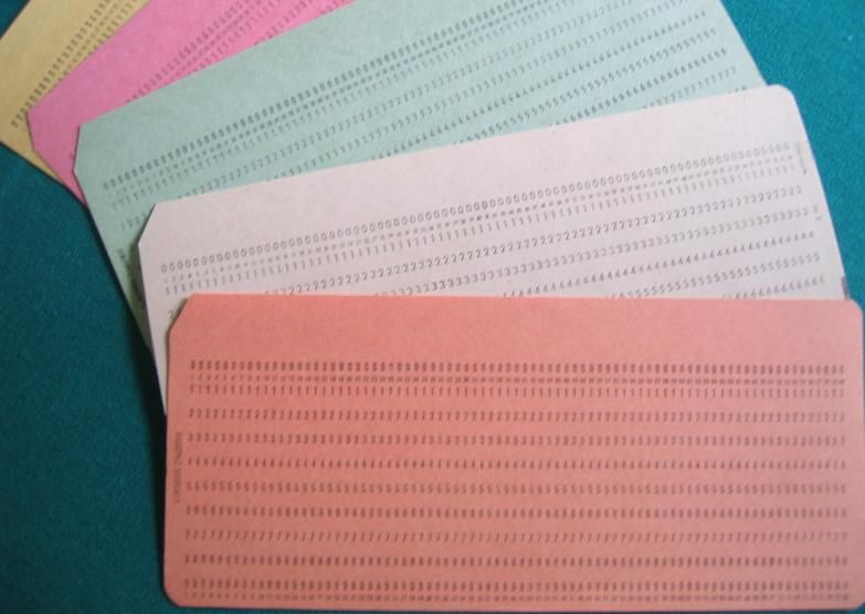 Punch card